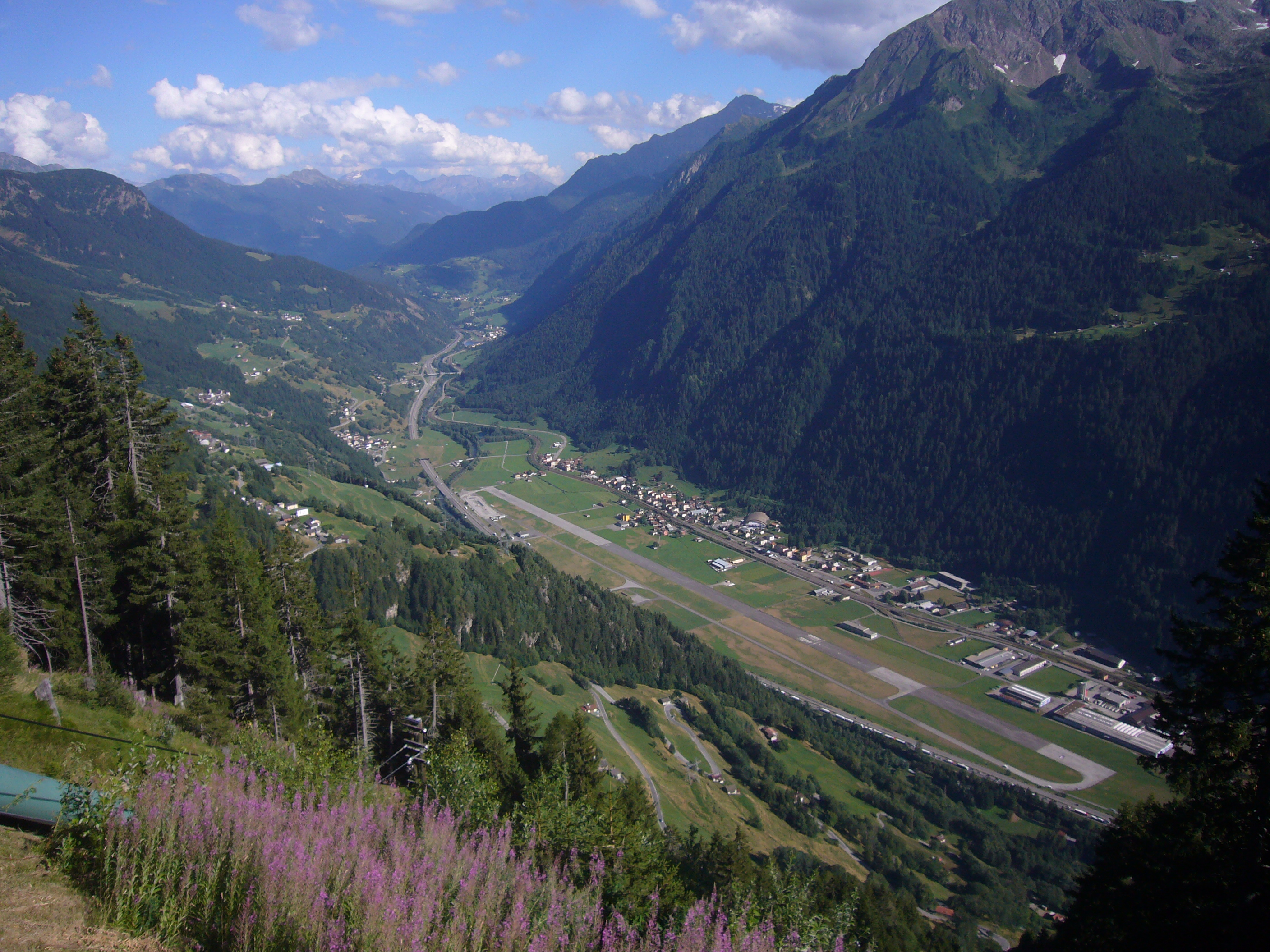 Ambri Airfield from Ritom cablecar